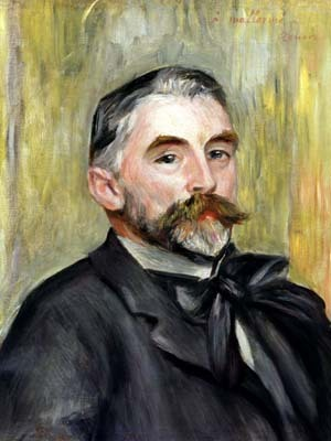 A portrait of Mallarme by Renoir